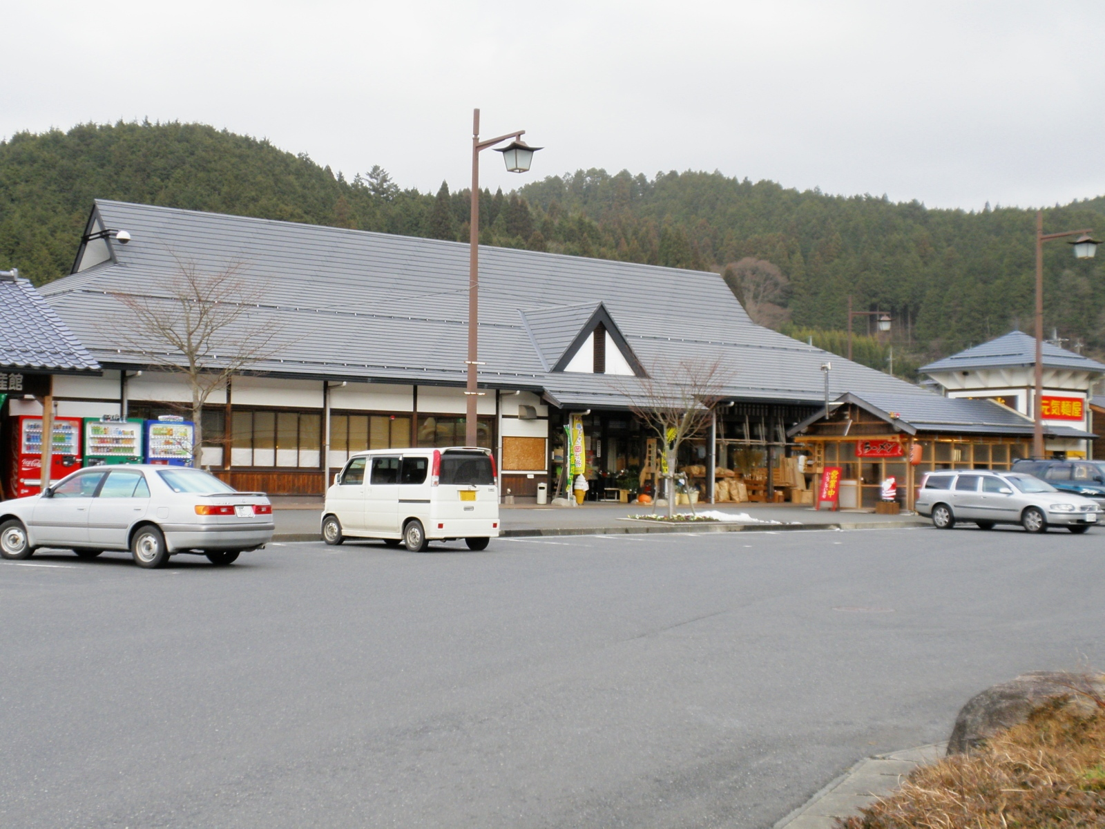 Local merchandise shop at Michinoeki Okutsu Onsen in Kagamino Town, Okayama Prefecture, Japan